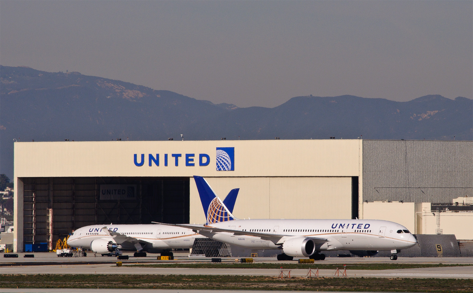 Some planespotting for the very first weekend of 2013 - in anticipation of seeing the new United 787 services to/from Tokyo. (And I was far from alone - plenty of hardcore planespotters, all of male middle-aged persuasion except for yours truly.) This is the money shot. In the foreground is N26906, United's second 787, returning from its first revenue overseas run to Tokyo Narita, as United 33. Parked in the background is N26902, United's third 787. "You will like where we land." N26906, Boeing 787-8 N26902, Boeing 787-8